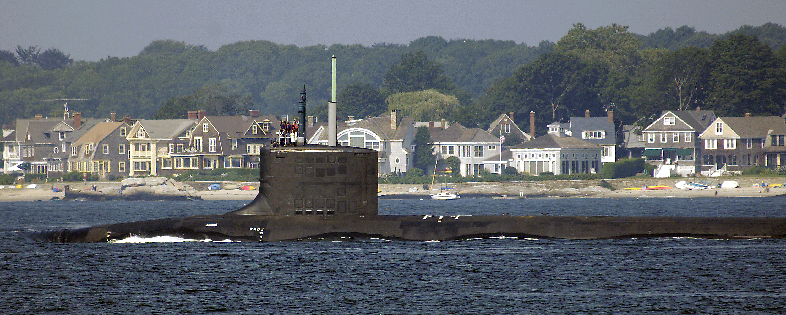 The Virginia-class fast-attack submarine PCU New Hampshire (SSN 778) makes her way down the Thames River for the first time as she embarks on Alpha Sea Trials. New Hampshire is the fifth Virginia-class submarine built.